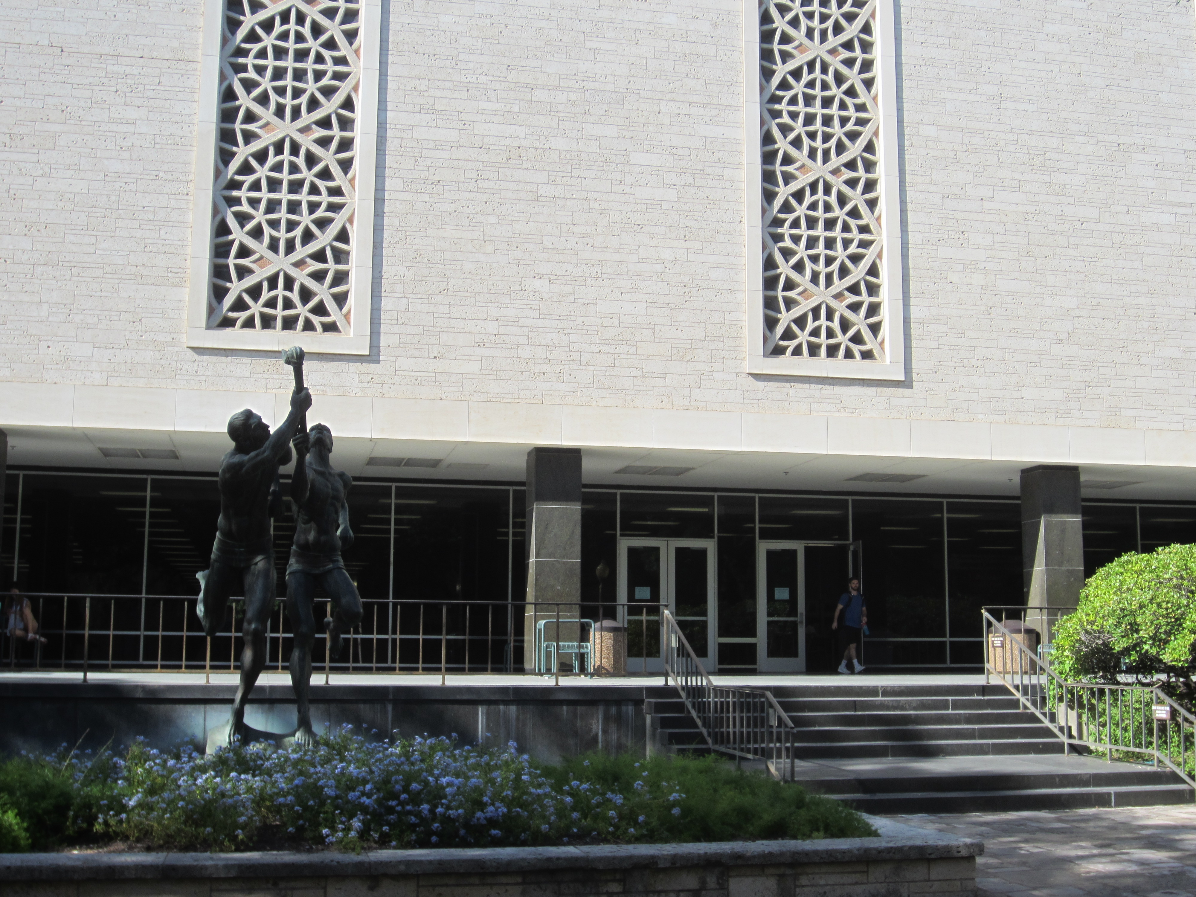 Austin, Texas (August 30, 2018)